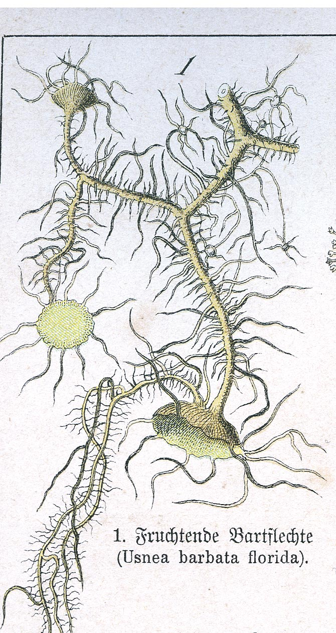 illustration from «Naturgeschichte des Pflanzenreichs», table LIII. Illustrations of the following organisms: Usnea barbata florida = Usnea florida